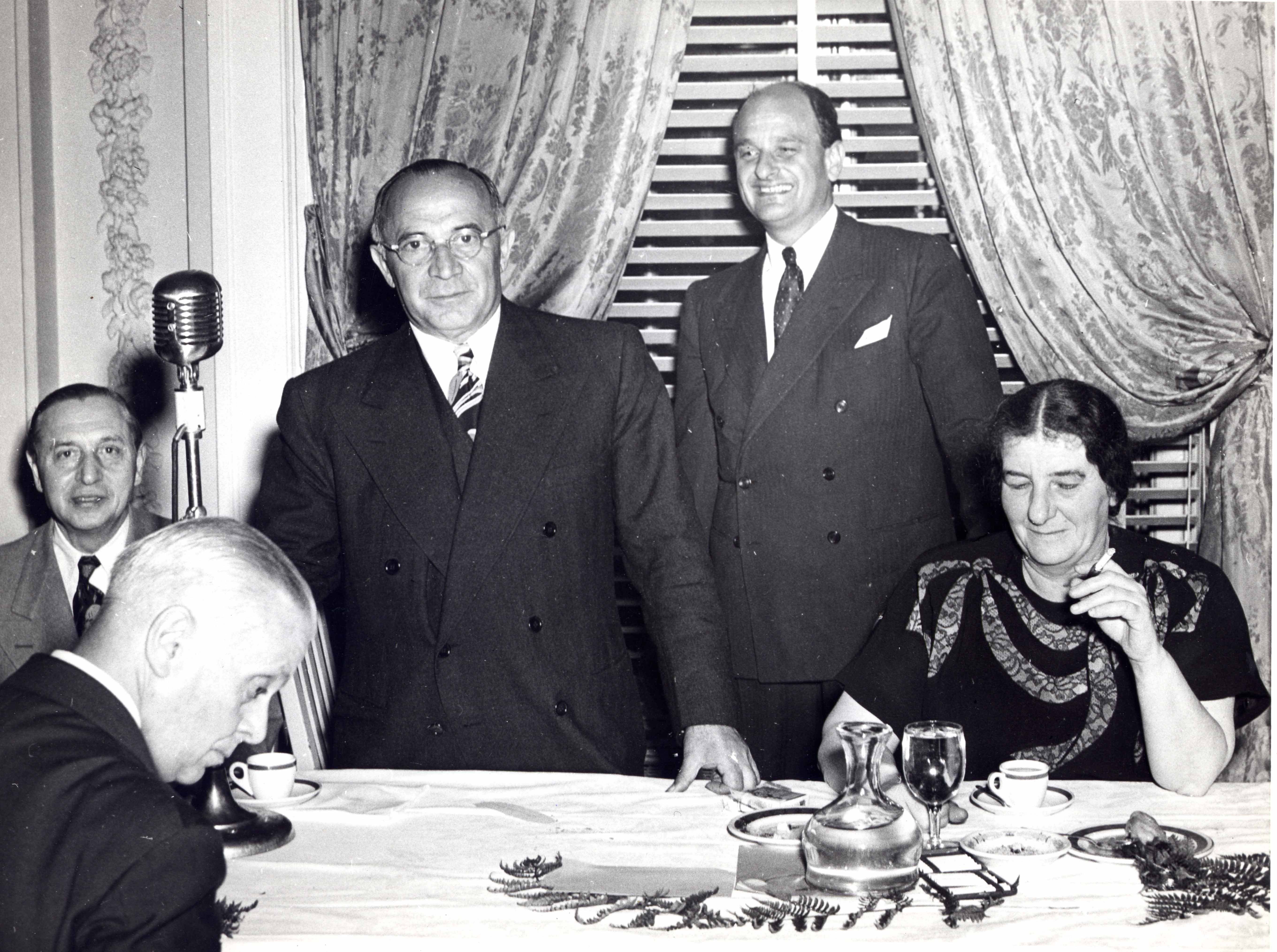 Israel Rogosin (standing in front) with Golda Meir in a visit to Israel